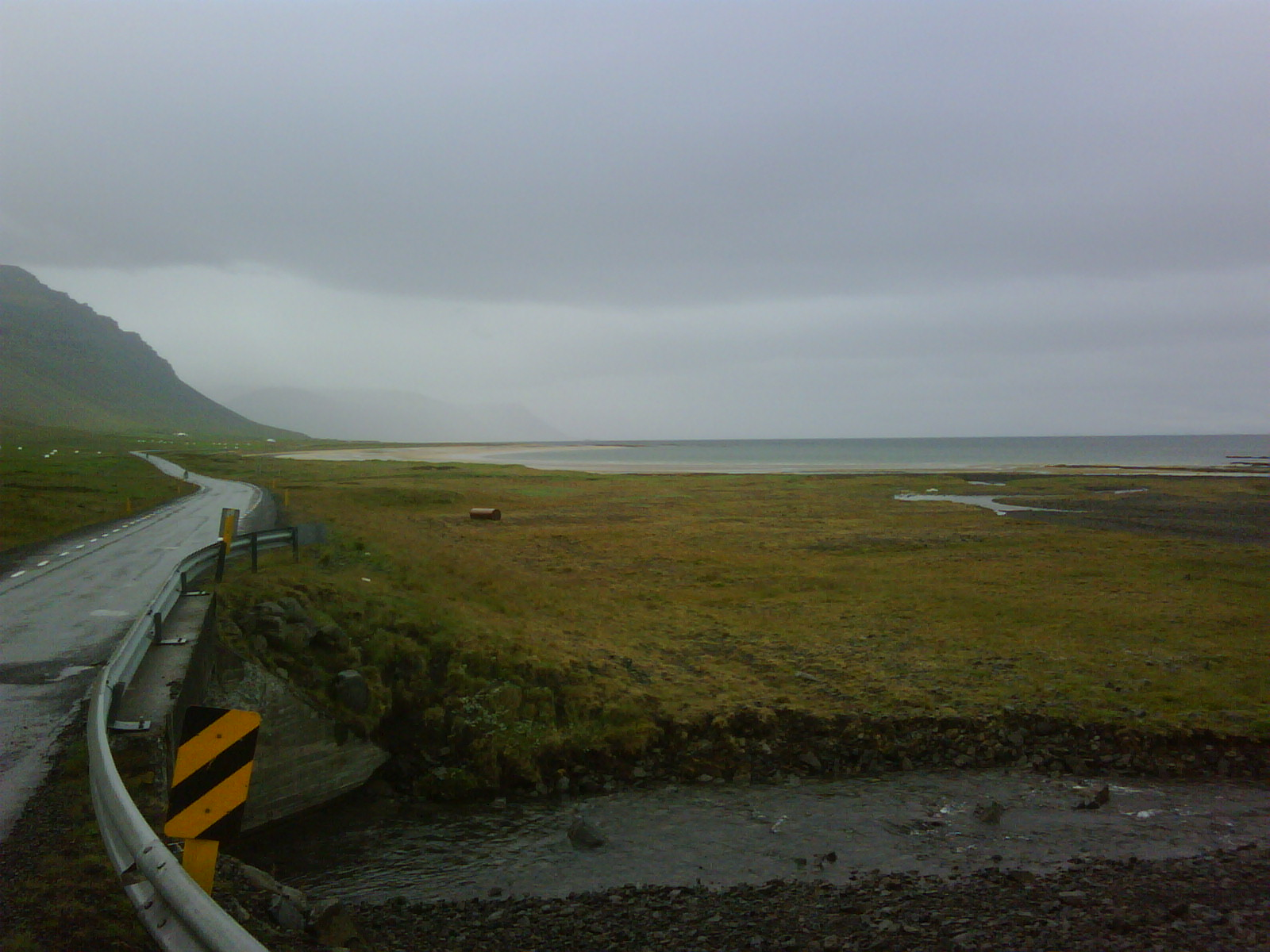 Road 62